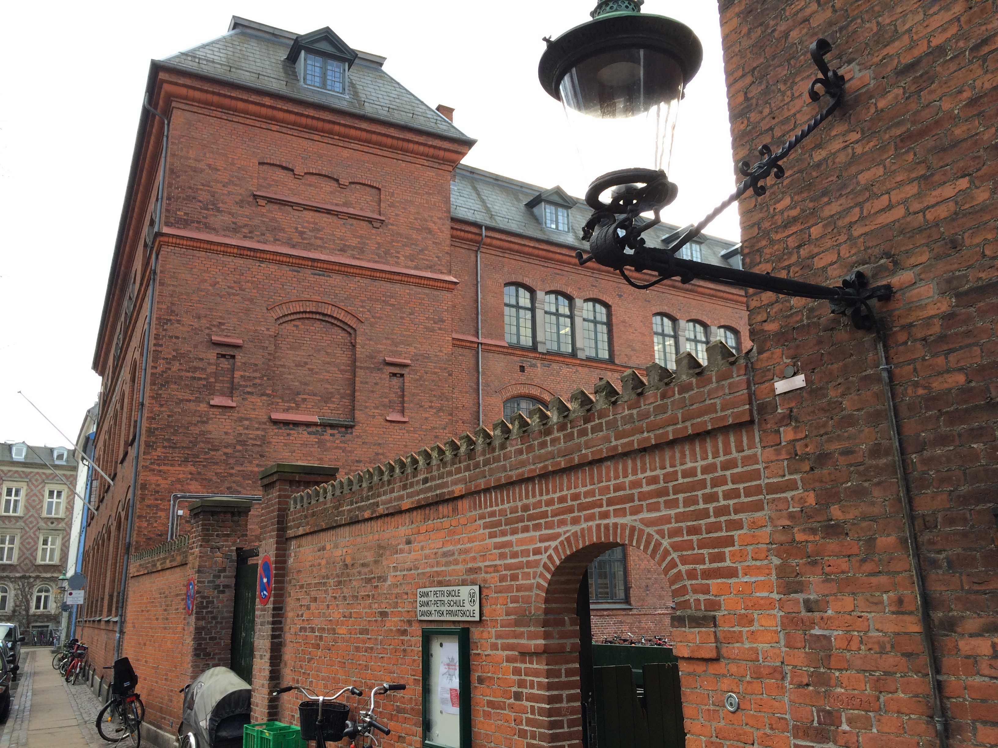 Sankt Petri Schule - German school in Copenhagen, Denmark